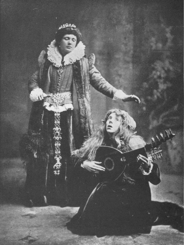 The first-ever Elizabethan Stage Society performance, of Hamlet, in 1881. William Poel, the moving spirit of the ESS, played Hamlet, Maud Holt Ophelia.